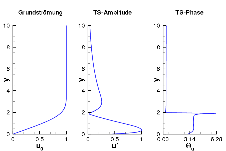 eigenfunction of tollmien-schlichting wave for blasius boundary layer